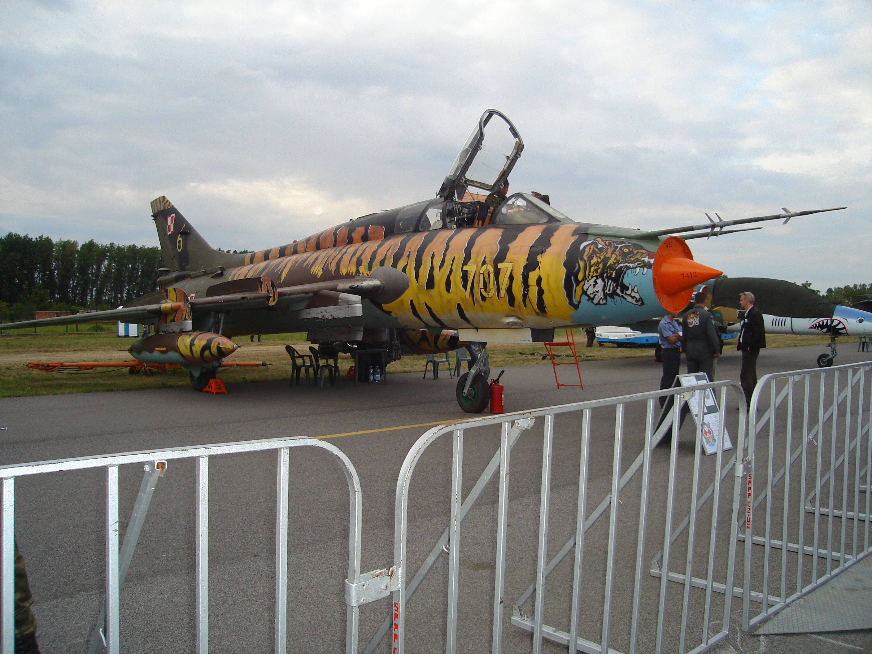 Picture of Su-22UM3K, Radom Air Show 2007